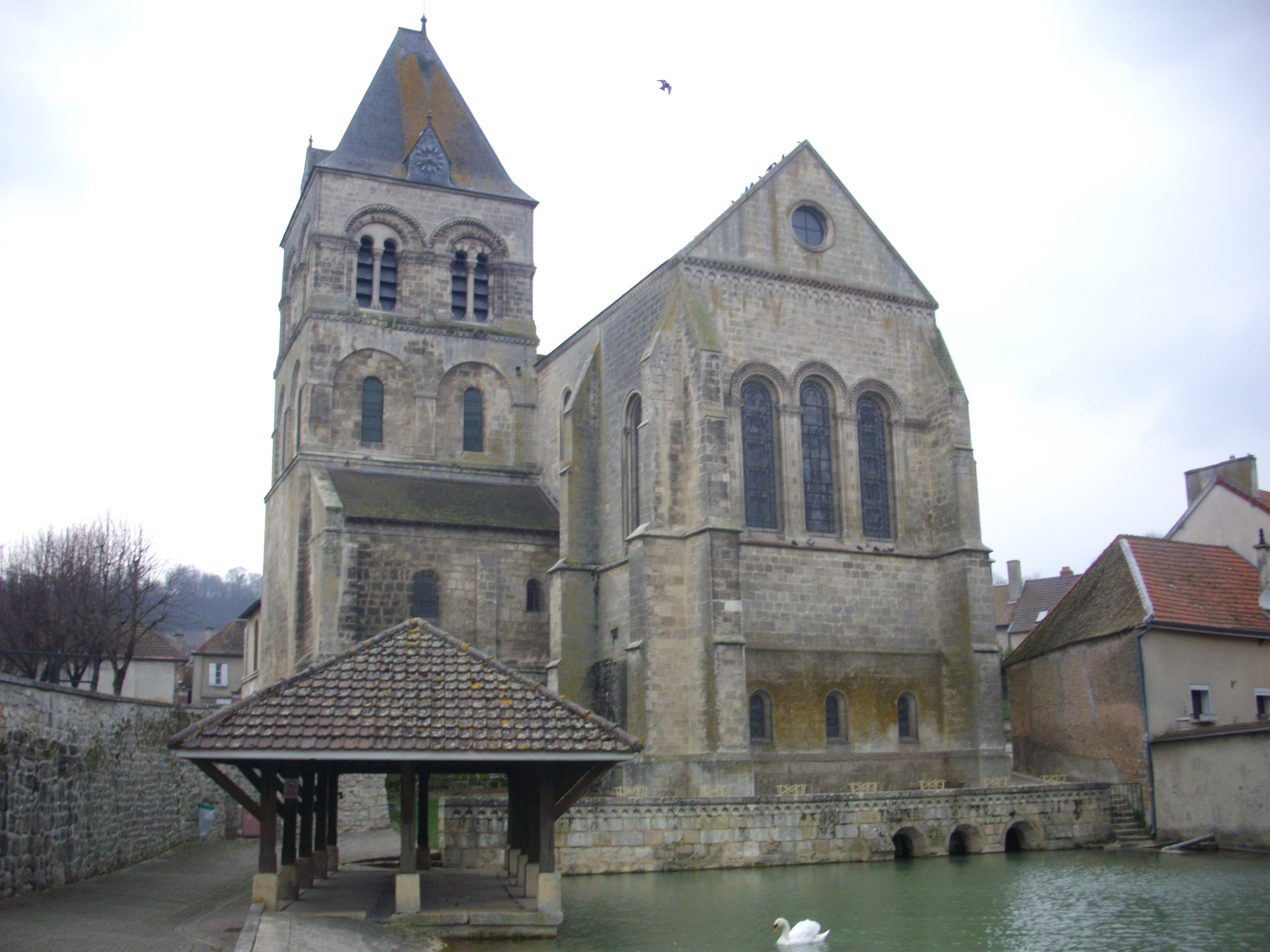 Saint Martin and well church of Vertus (Marne, France)